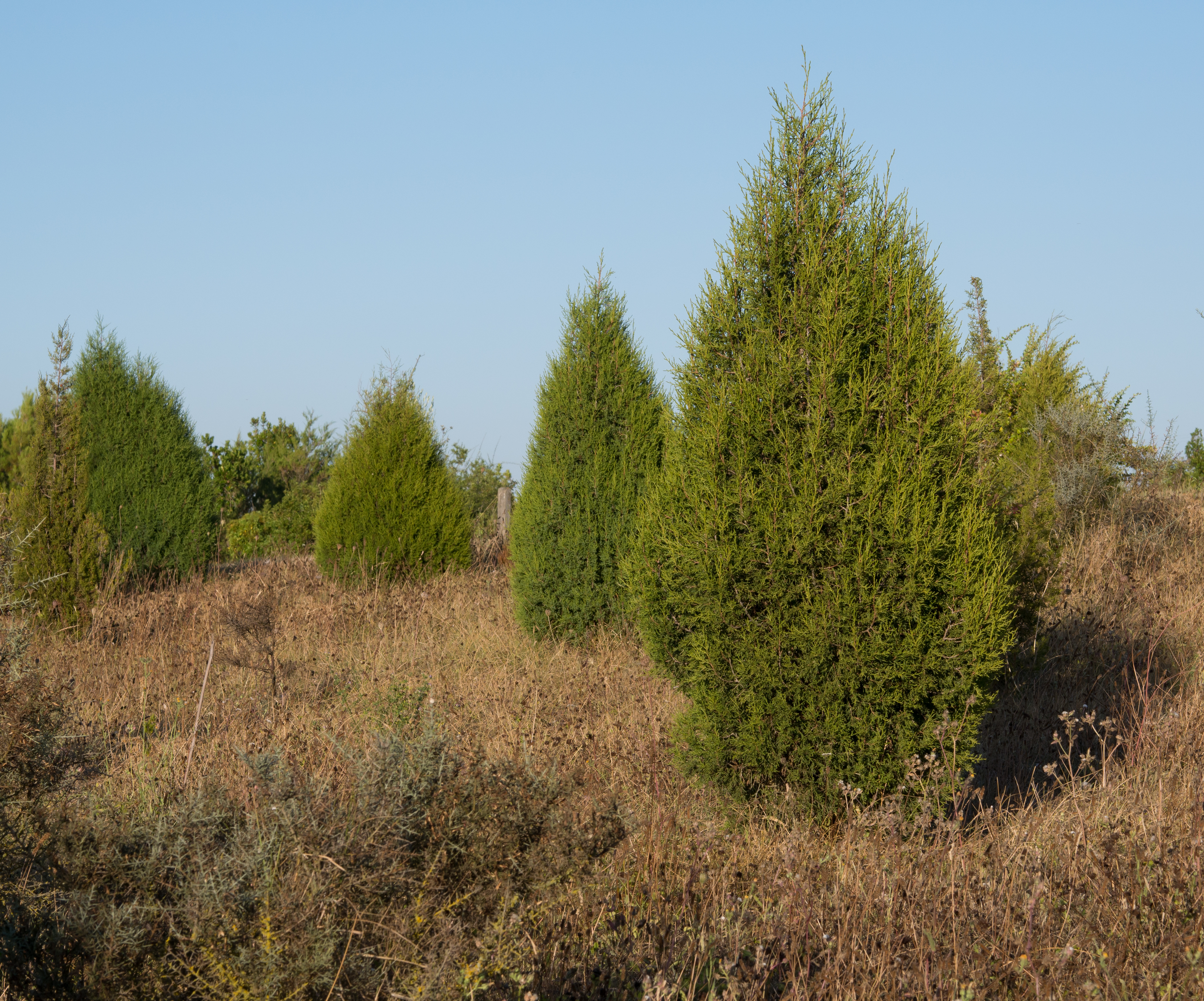 Sabinar albar ibérico, vegetation with predominating Spanish juniper in the Botanical Garden of Olarizu. Vitoria-Gasteiz, Basque Country, Spain